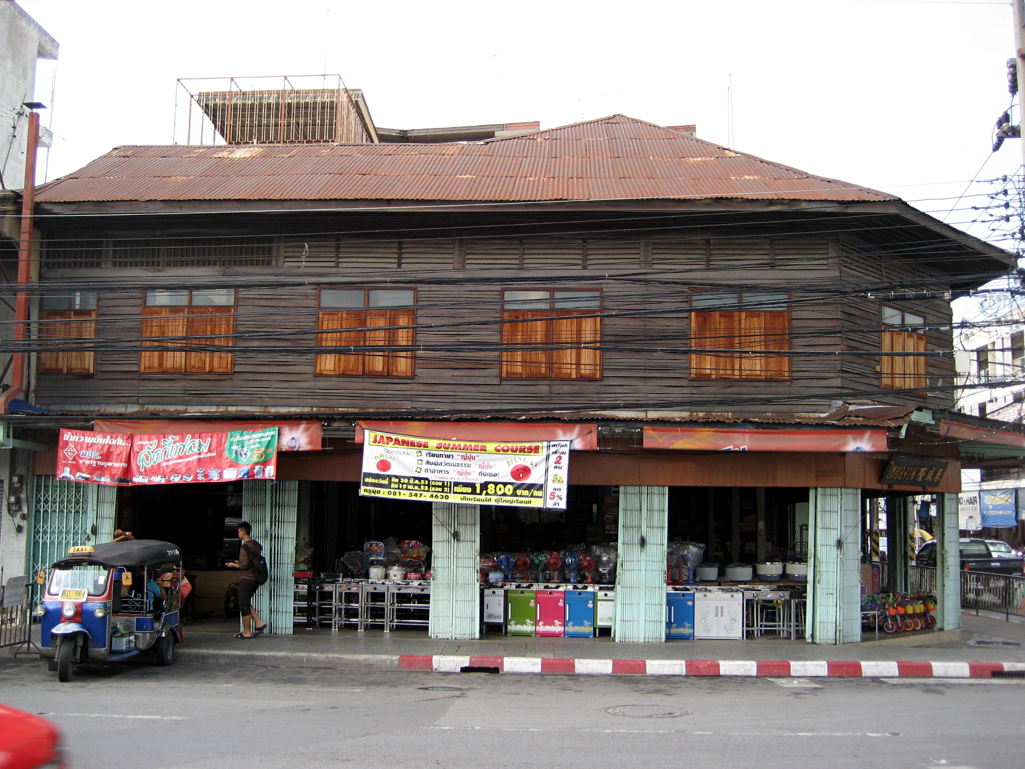 A traditional wooden shop house in downtown Korat City (Nakhon Ratchasima), Thailand.